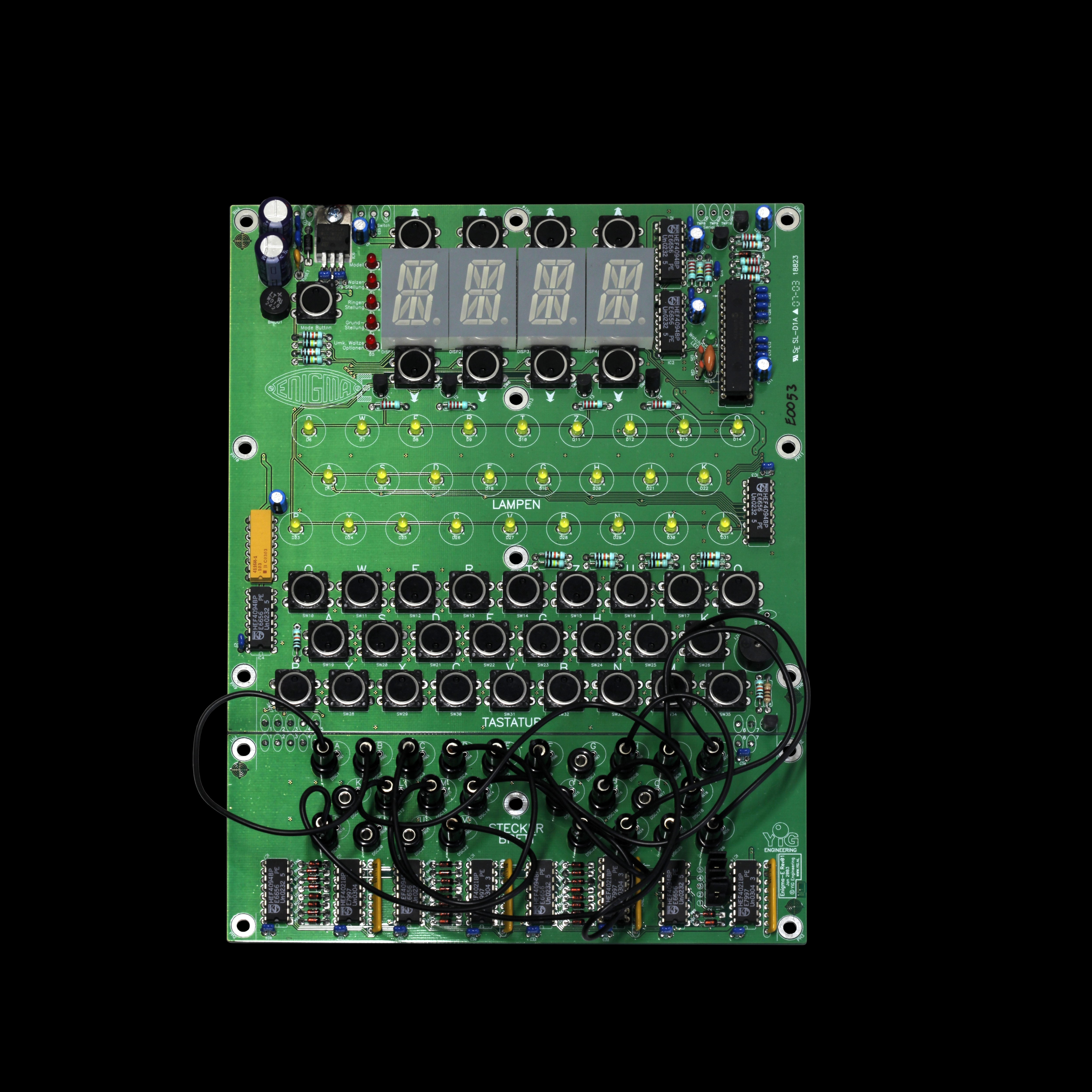 An Enigma electronic simulator, as sold at the Bletchley Park shop. Cryptography collection of the Swiss Army headquarters The making of this document was supported by Wikimedia CH. (Submit your project!) For all the files concerned, please see the category Supported by Wikimedia CH.